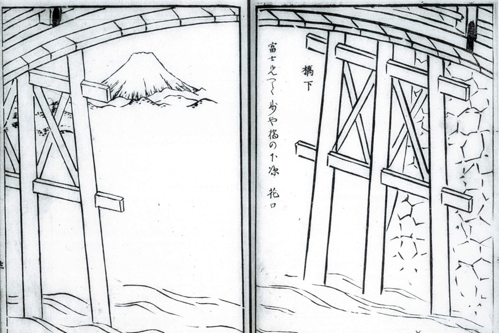 Spectacle Viewing